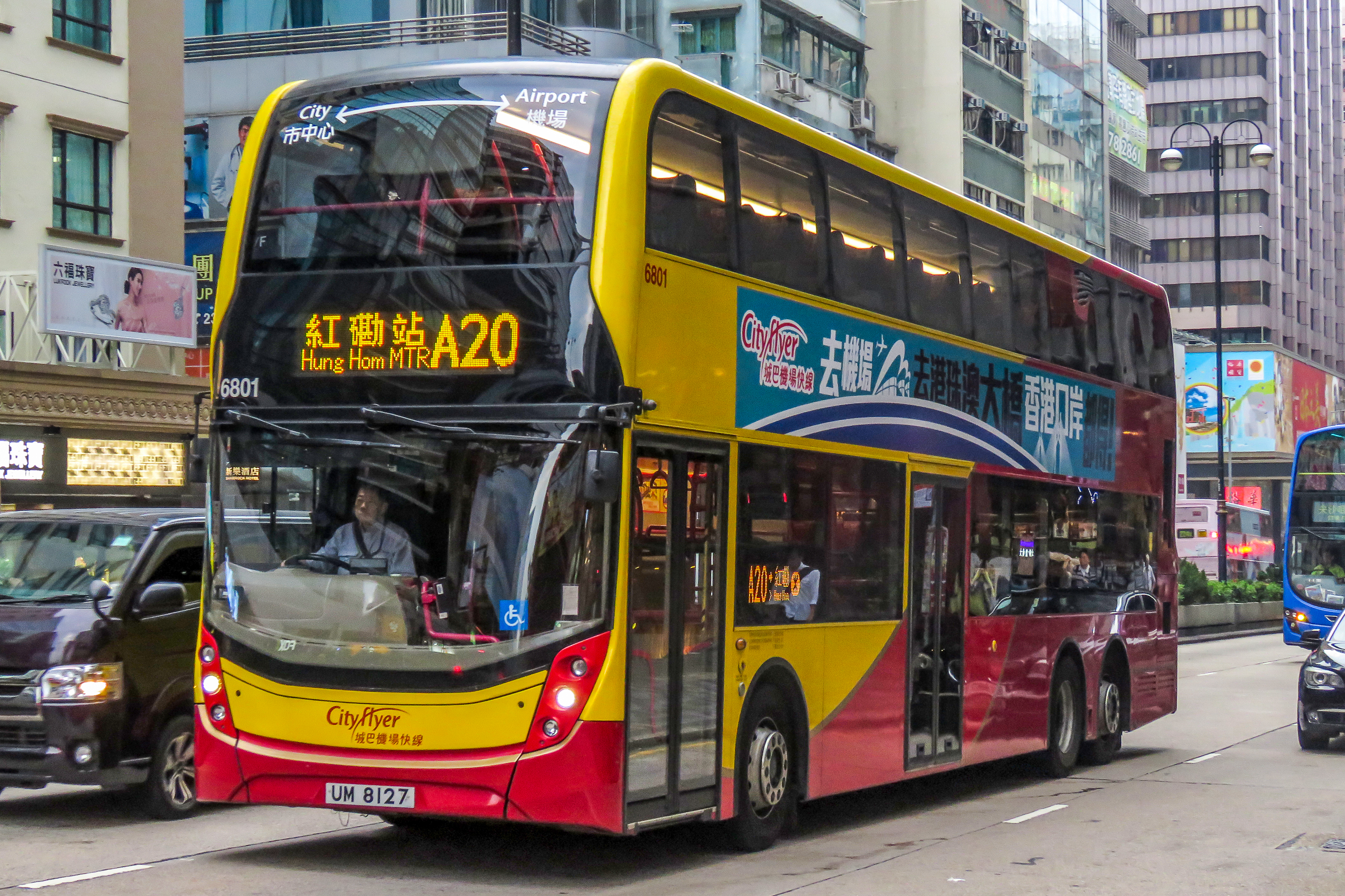 Here comes an A20... this route should go to HZMB and add services.